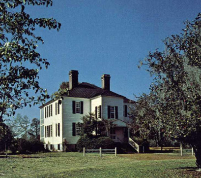 Photograph of the Hopseewee Plantation where Thomas Lynch Jr. grew up